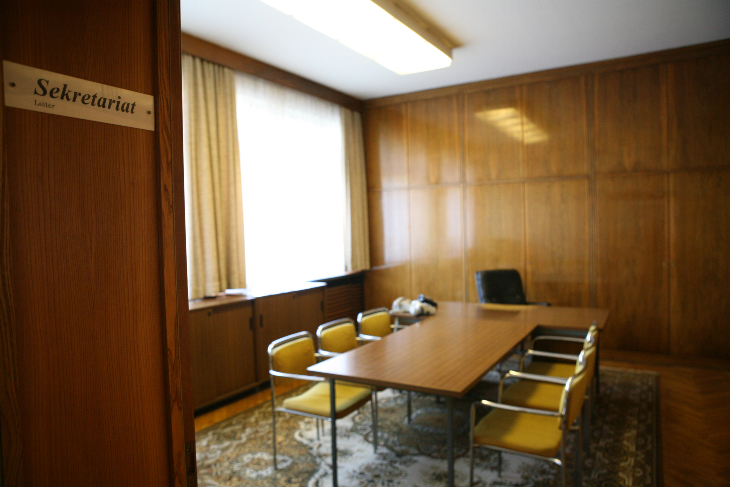 The "Sekretariat in the Stasi Museum in the old headquarters